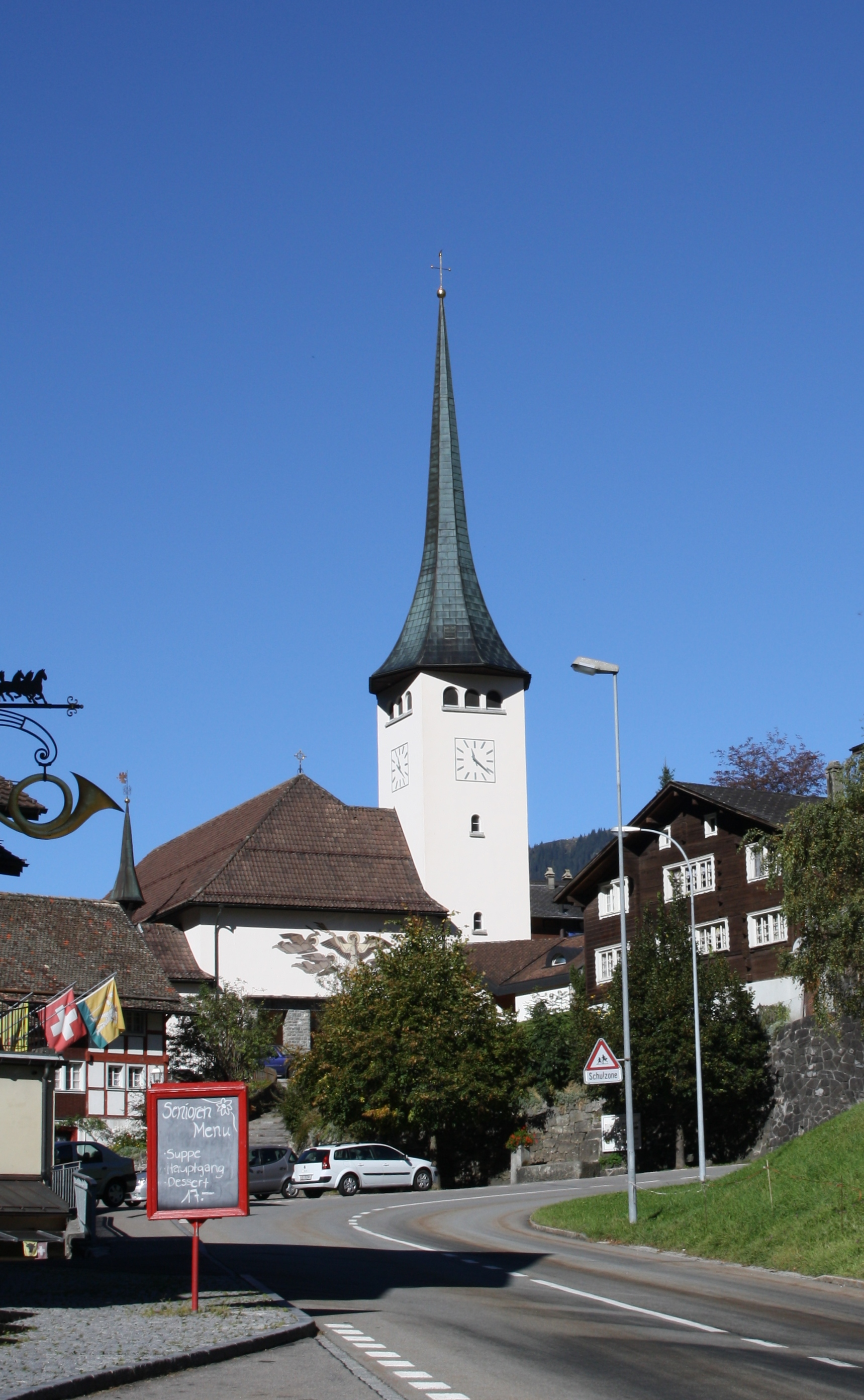 Roman-catholic church of Spiringen, canton of Uri, Switzerland